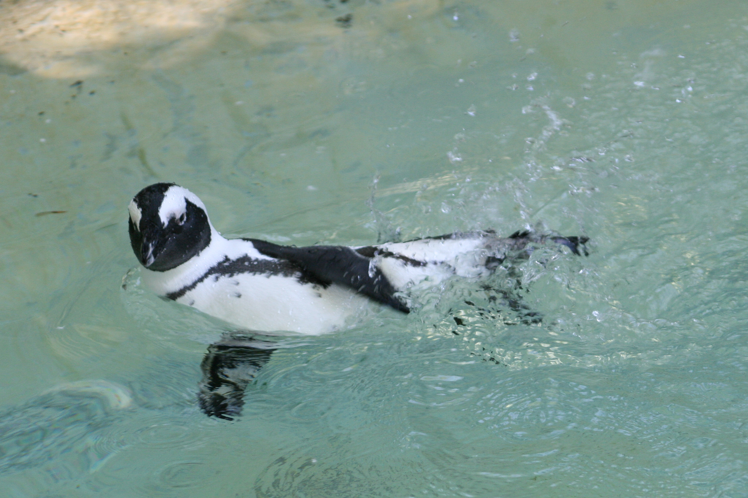 African Penguin in Basel Zoo, Switzerland.